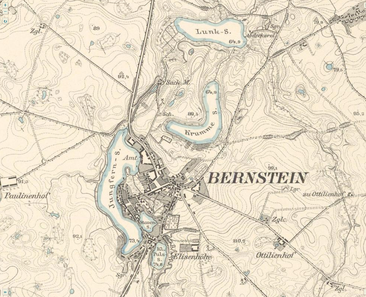 Pełczyce (Bernstein), Powiat Choszczeński, województwo zachodniopomorskie, Poland